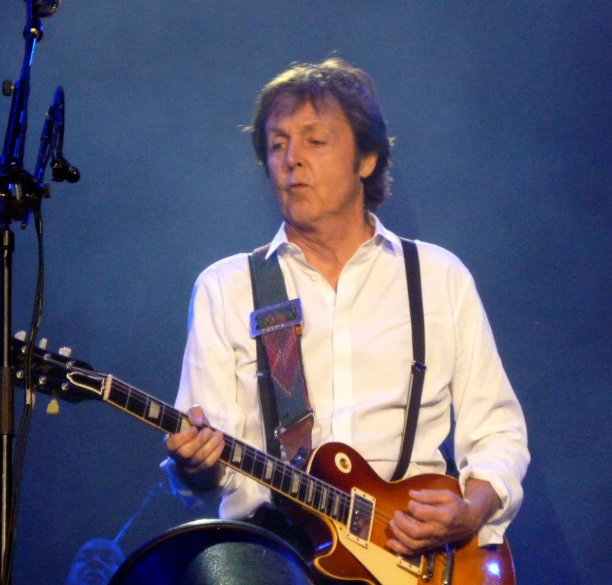 Paul McCartney performing in Dublin, Ireland on July 10, 2010